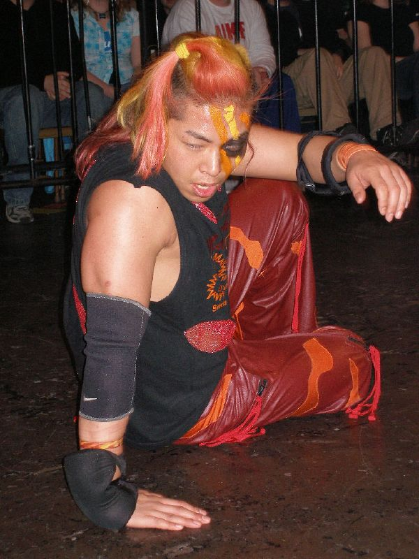 Mototsugu Shimizu at Chikara's 2008 King of Trios tournament on March 2.